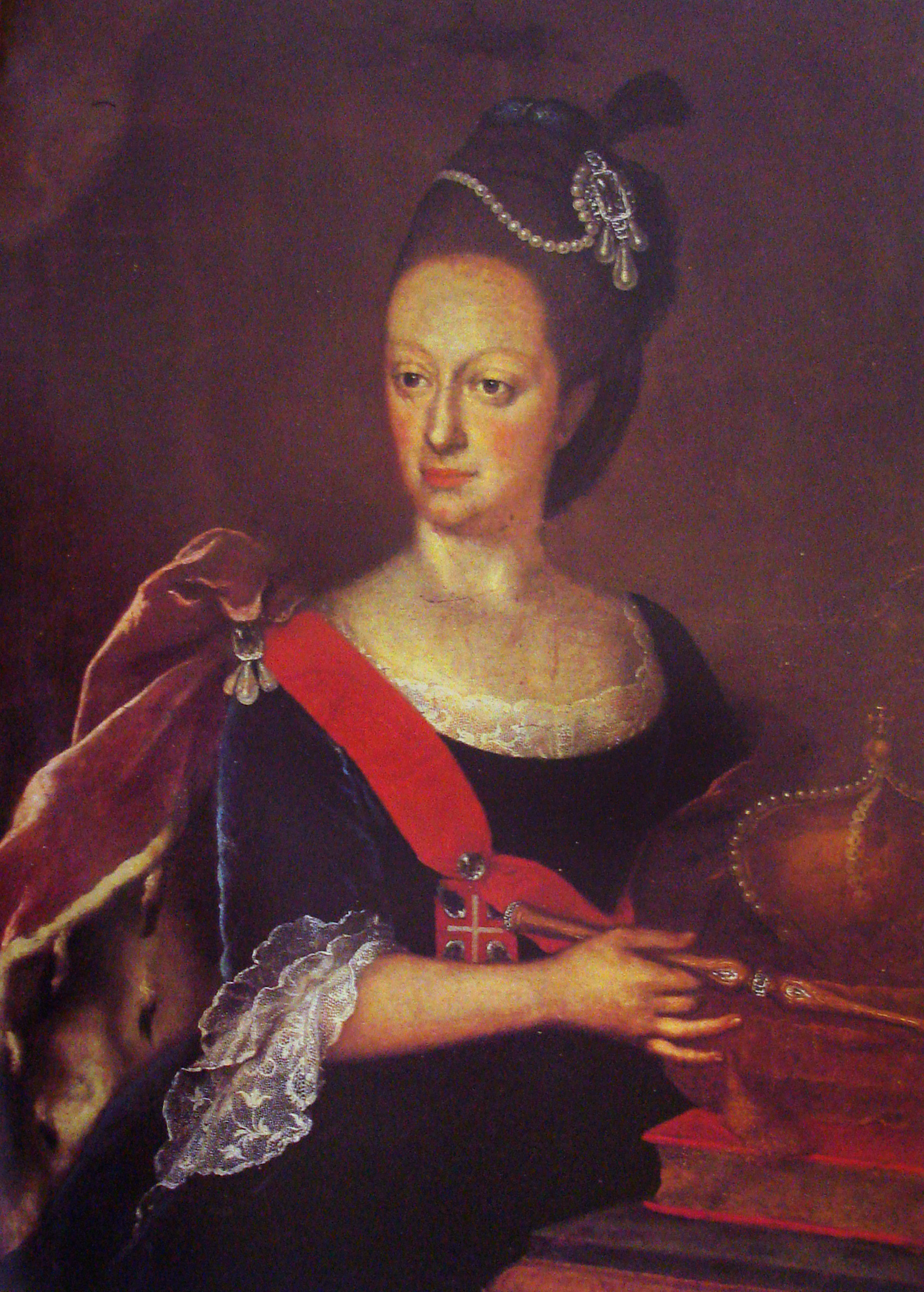 Portrait of Maria I of Portugal (1734-1816)